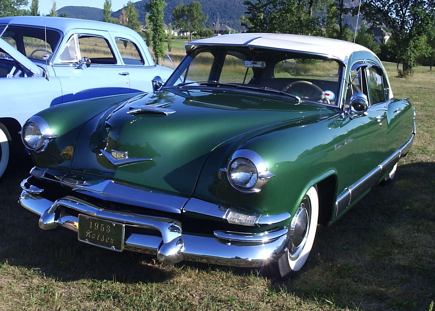 1953 Kaiser photographed in Mont St. Hilaire, Quebec, Canada at the Auto classique VAQ Mont St-Hilaire.